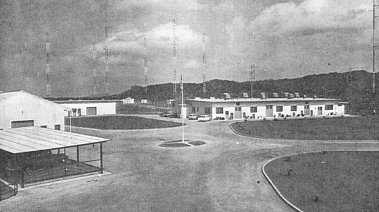 VOA Okuma Station